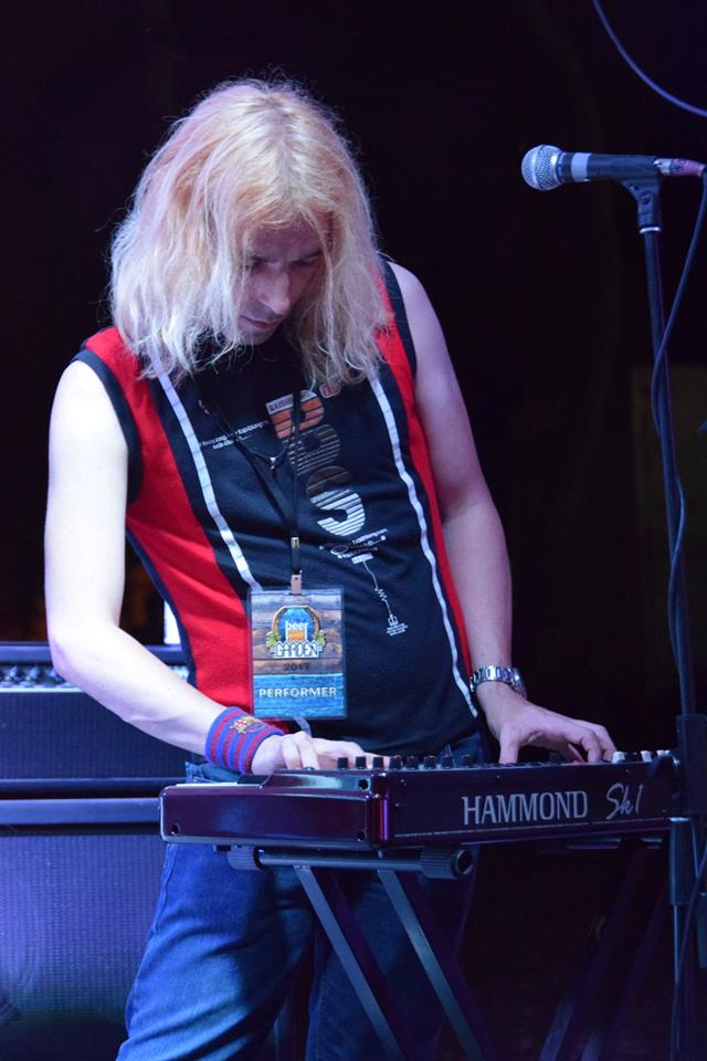 Nebojša Maksimović during his performance with his band "Witch 1" at the Beer Garden festival, at Ada Ciganlija (Belgrade, Serbia, July 22, 2017)